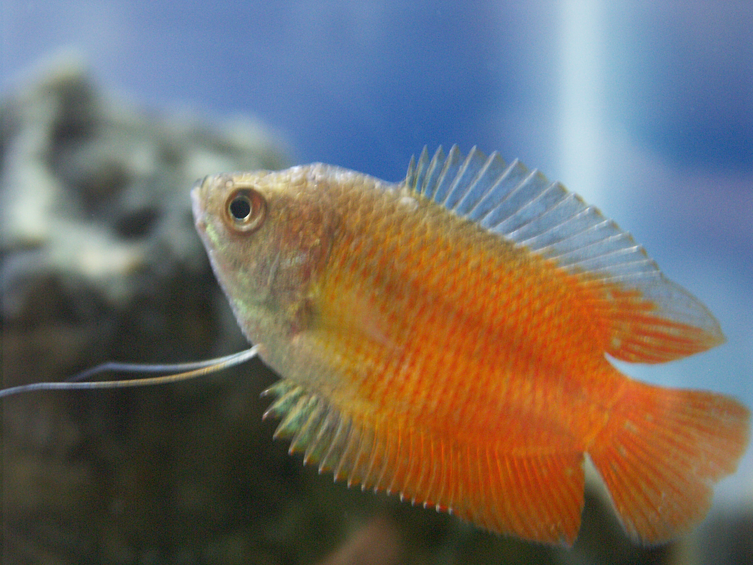 Common name: Neon Red Dwarf Gourami Scientific name: Colisa lalia Source: Fred Hsu, October 2005.